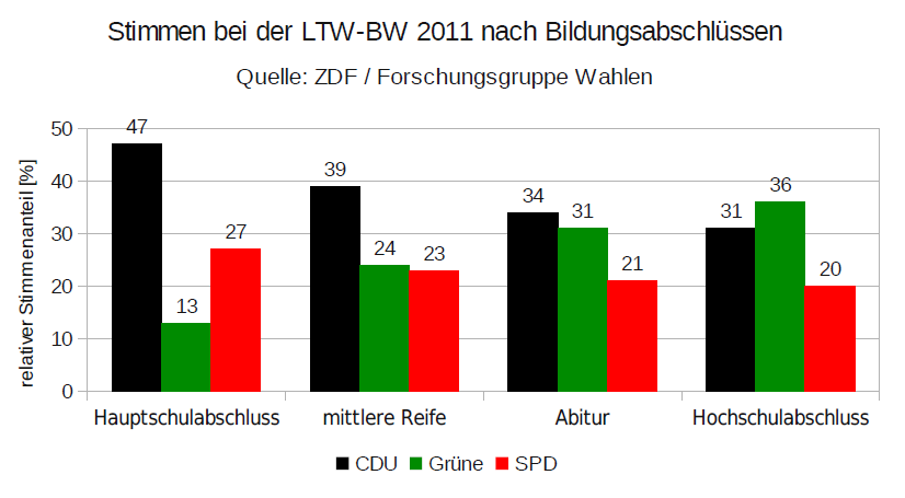 Baden-Württemberg state election, 2011: votes by education